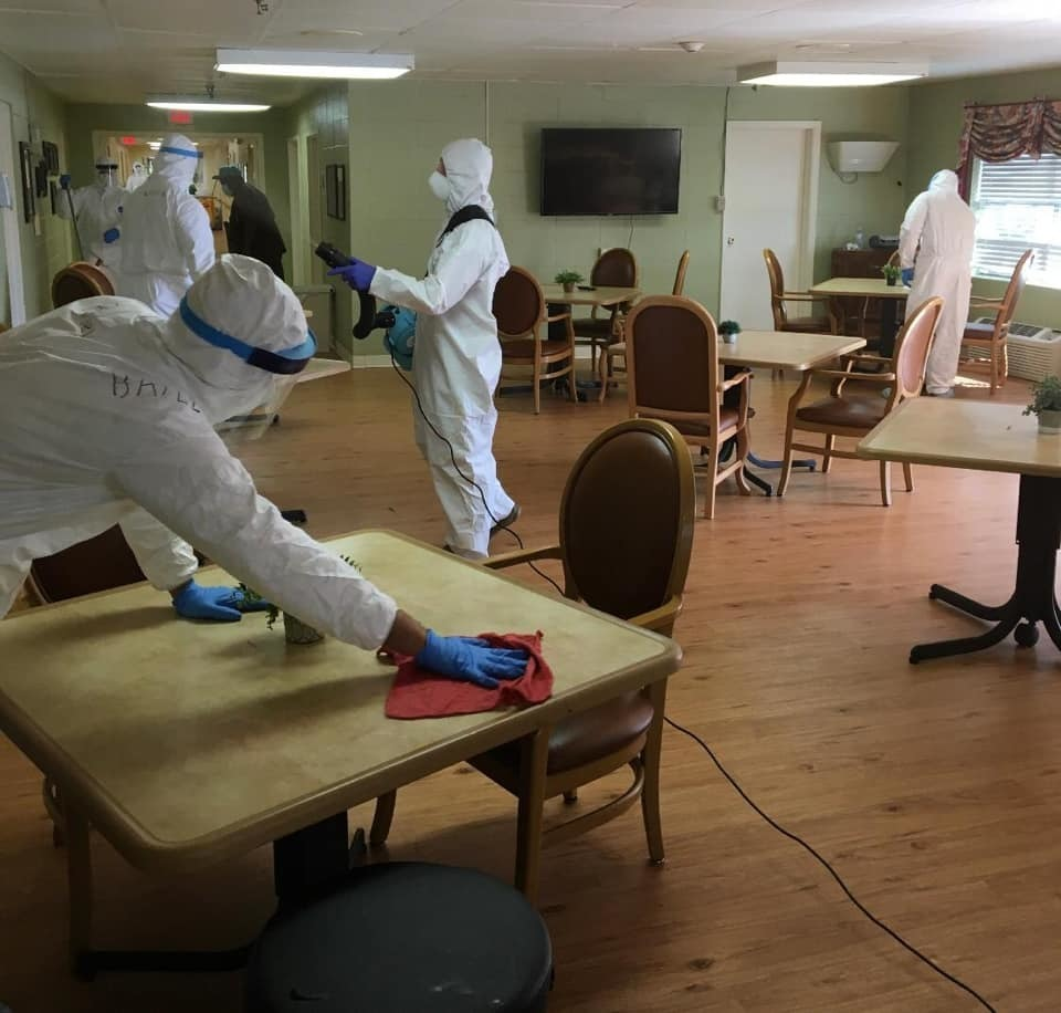 Georgia Army National Guard Soldiers, of Company C, 2nd Battalion, 121st Infantry Regiment, disinfect common areas in a long-term care facility in Dawson, Ga. April 2, 2020. The Georgia National Guard is sending infection-control teams to nursing homes around the state to help limit the spread of COVID-19. (Photo by 2nd Lt. George Peagler)